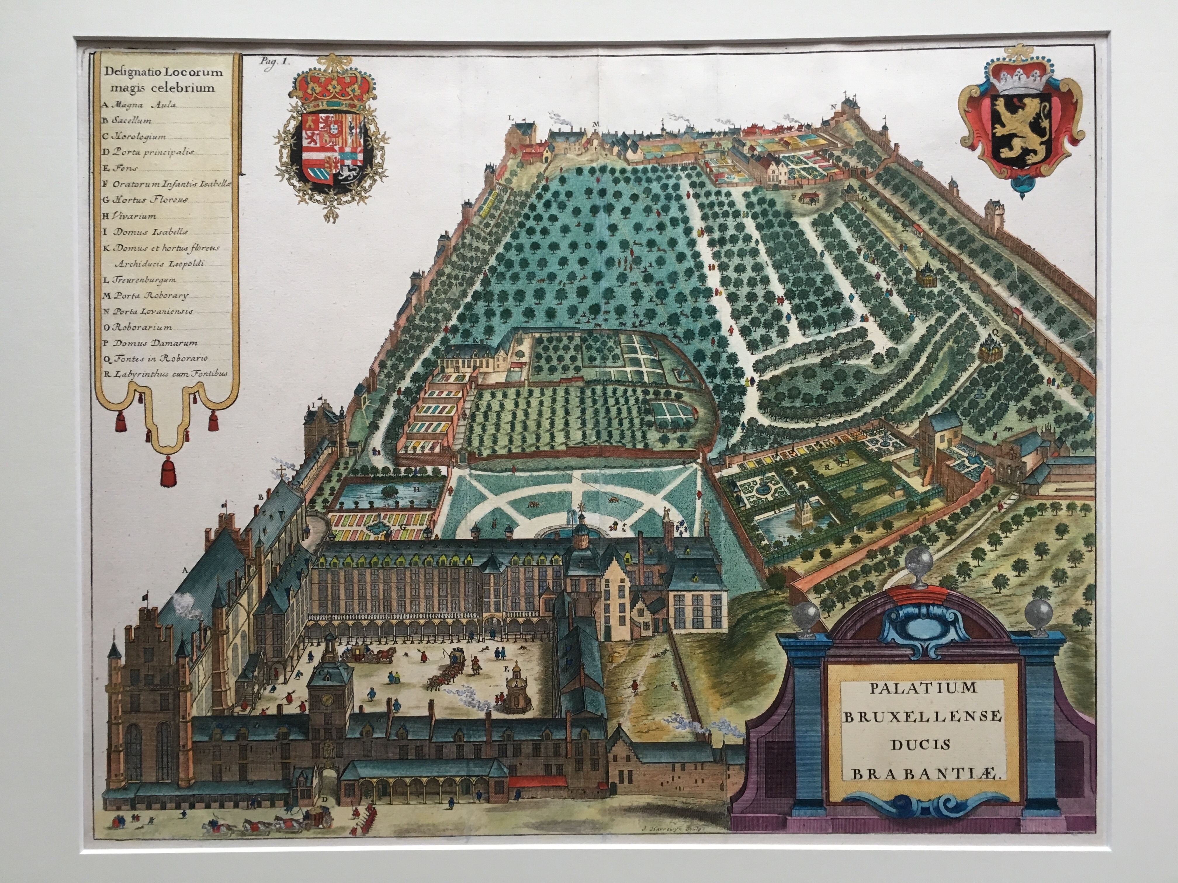 A view on the Koudenberg palace and its gardens in Brussels around 1726 - an engraving by Harrewijn and Butkens (DH Collection).